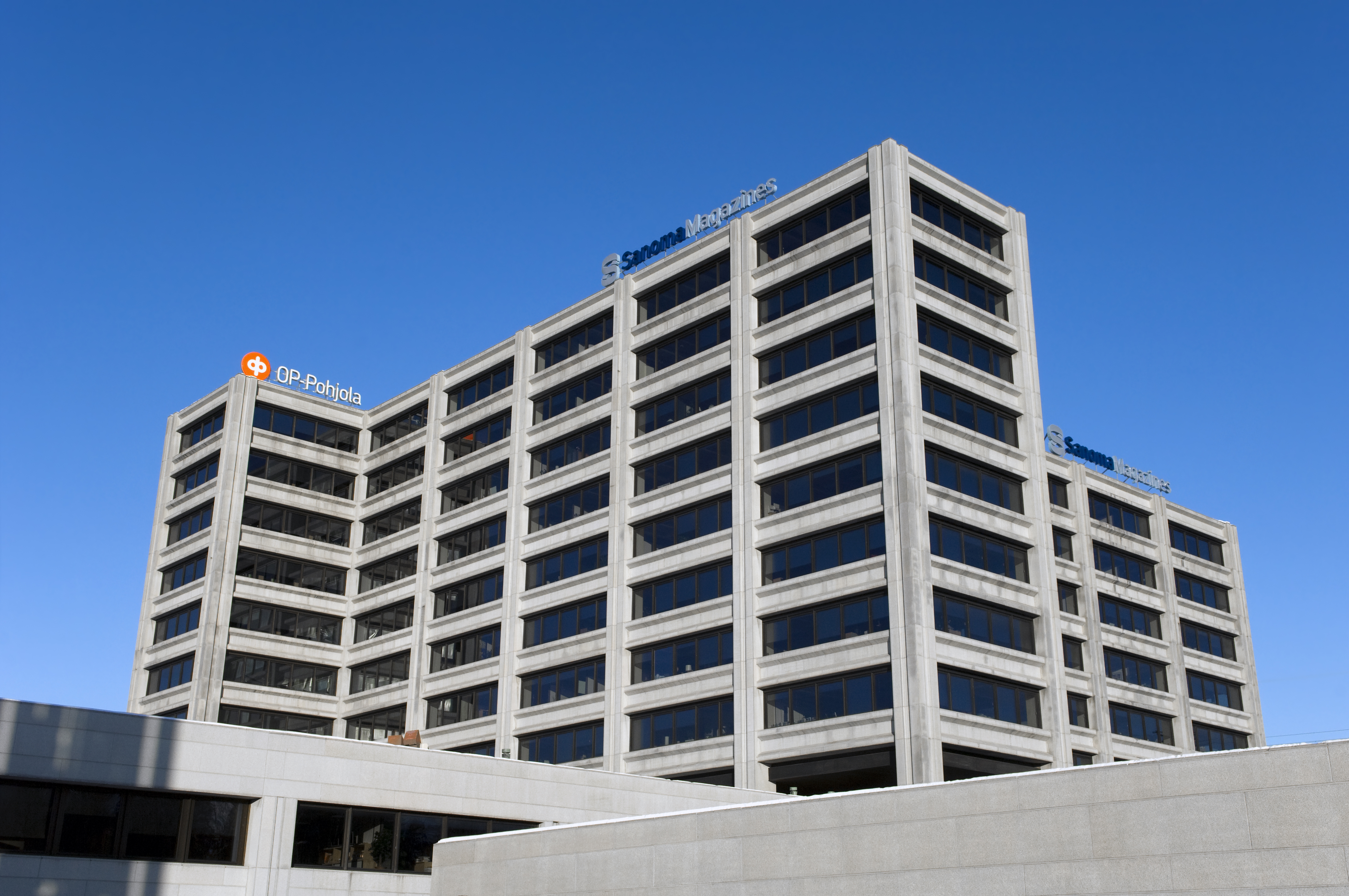 The headquarters of OP-Pohjola Group and the regional headquarters of Sanoma Magazines (a division of Sanoma Group) in Niemenmäki, Helsinki, Finland.